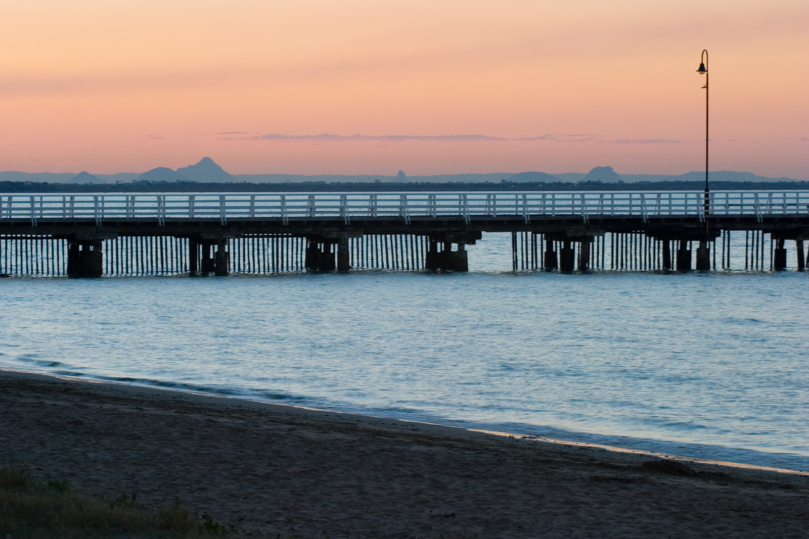 Shorncliffe Jetty and Sunset